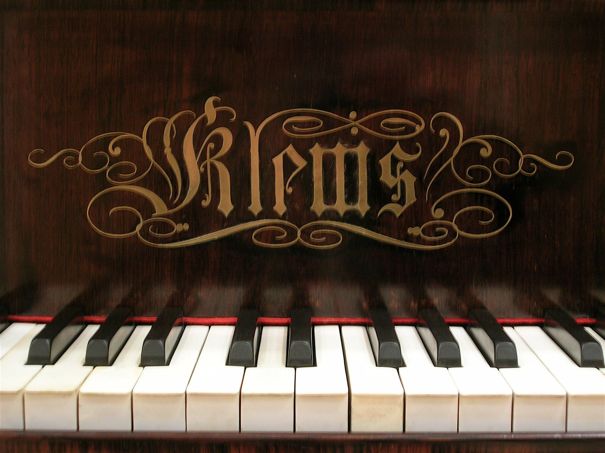 nameplate for a Klems grand piano (around 1855)